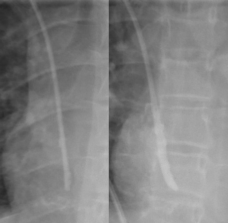 Projectional radiograph of at the level of the heart of a 12 year old female with acute lymphoblastic leukemia, before and after radiocontrast infusion. There is a fibrin sheath forming a socket around the central venous catheter (used for chemotherapy), resulting in a collection of radiocontrast around the catheter. The fibrin sheath caused an inability to check for correct placement of the catheter by aspiration.